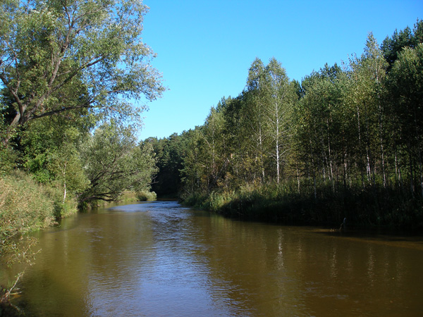 Barnaulka River in Barnaul Ribbon Forest near Barnaul, August 2007.